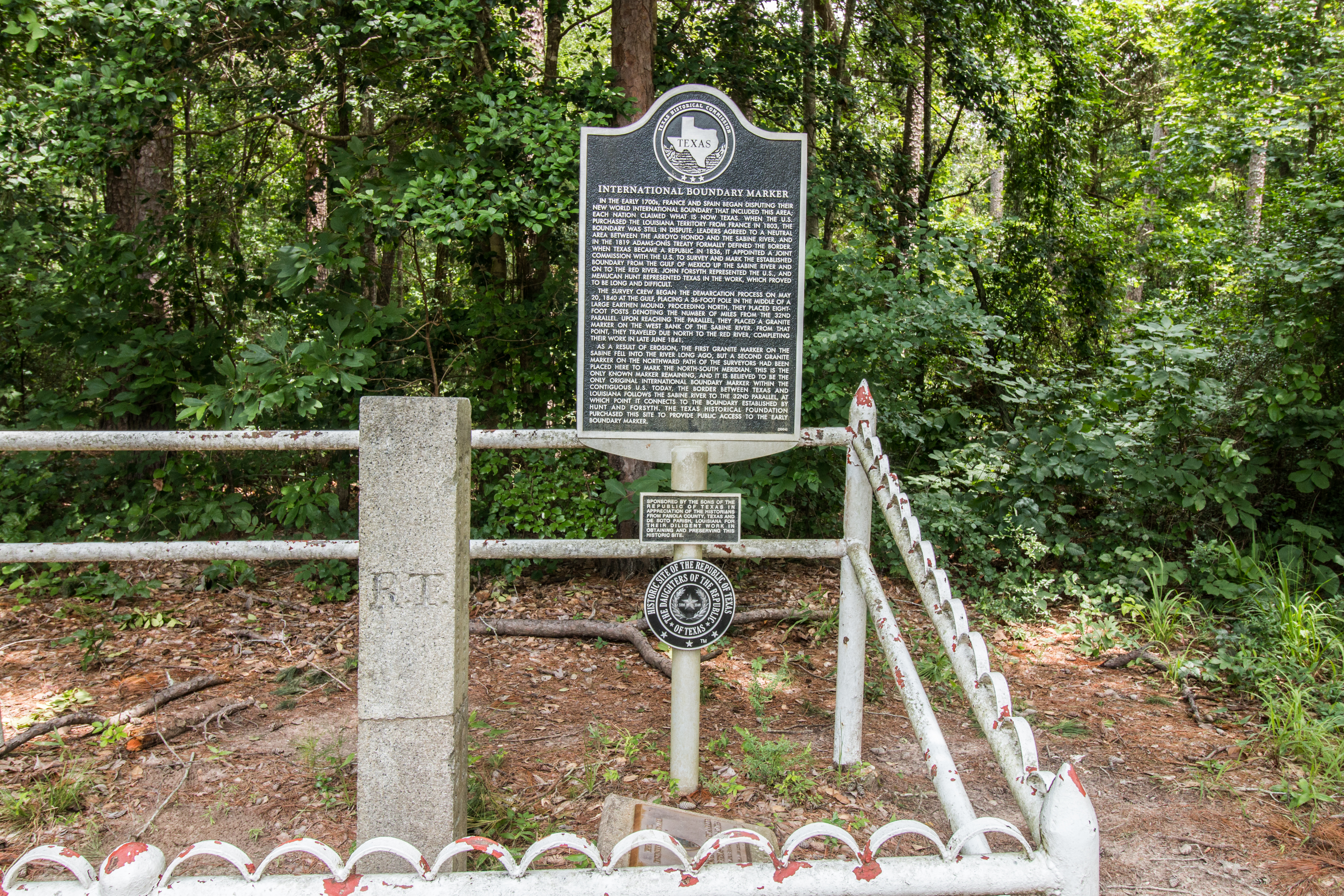 International Boundary Marker in Panola County, Texas